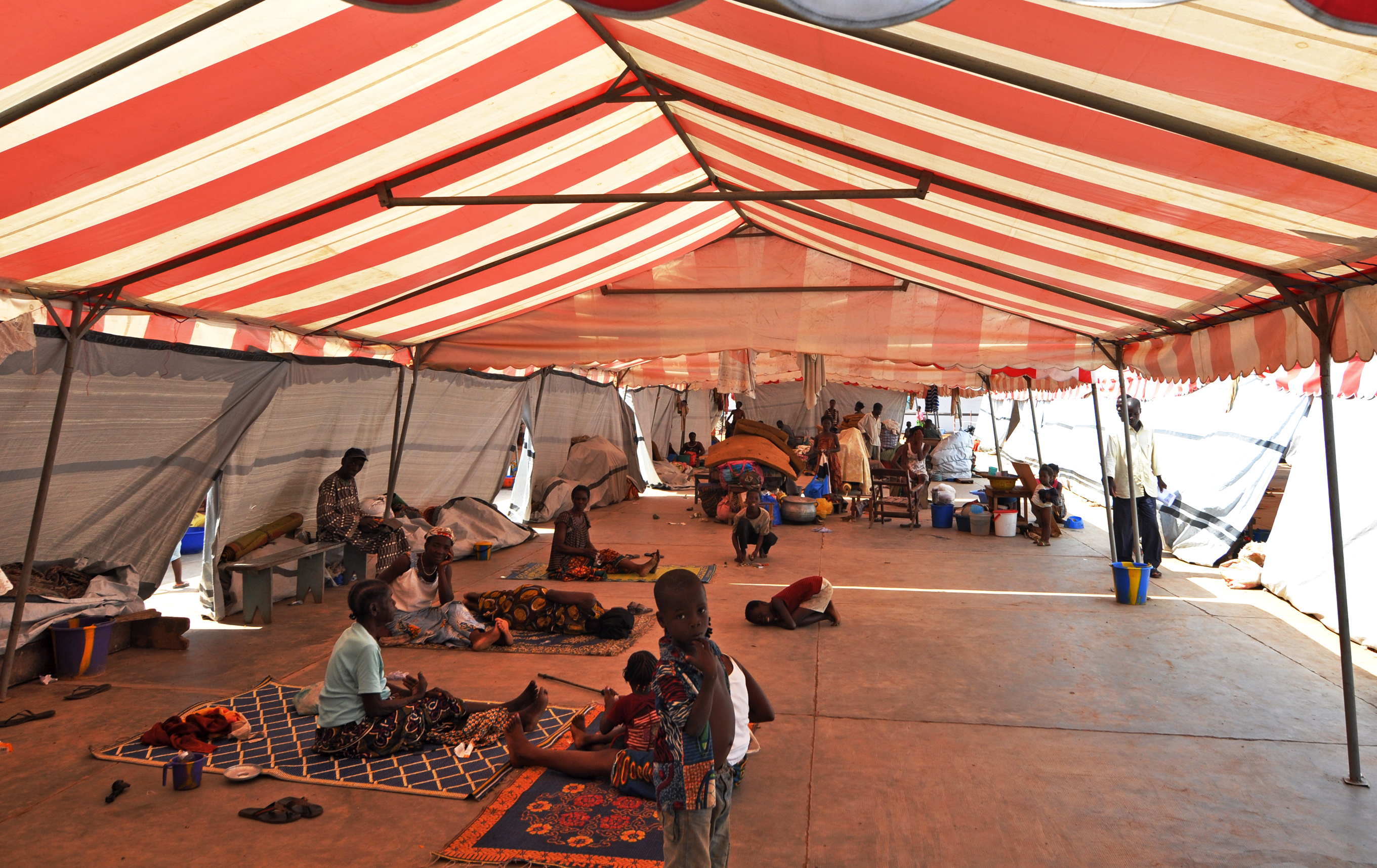 Internally displaced people in Duekoue western Cote D'Ivoire. Photos are from the Catholic mission IDP camp and the Celestine Church. They were driven from their homes by attacks from pro-Ouattara militias in January 2011